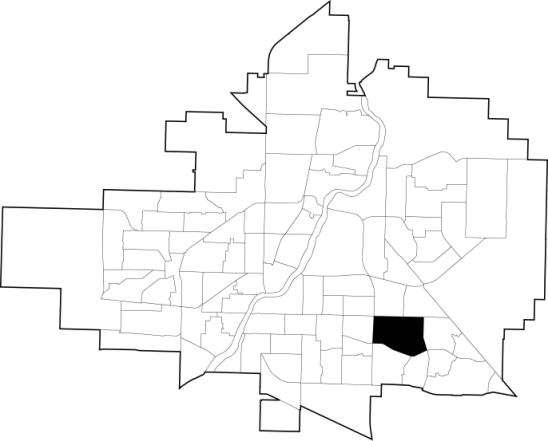 A map showing the boundaries of the Wildwood neighbourhood in Saskatoon, Saskatchewan, Canada